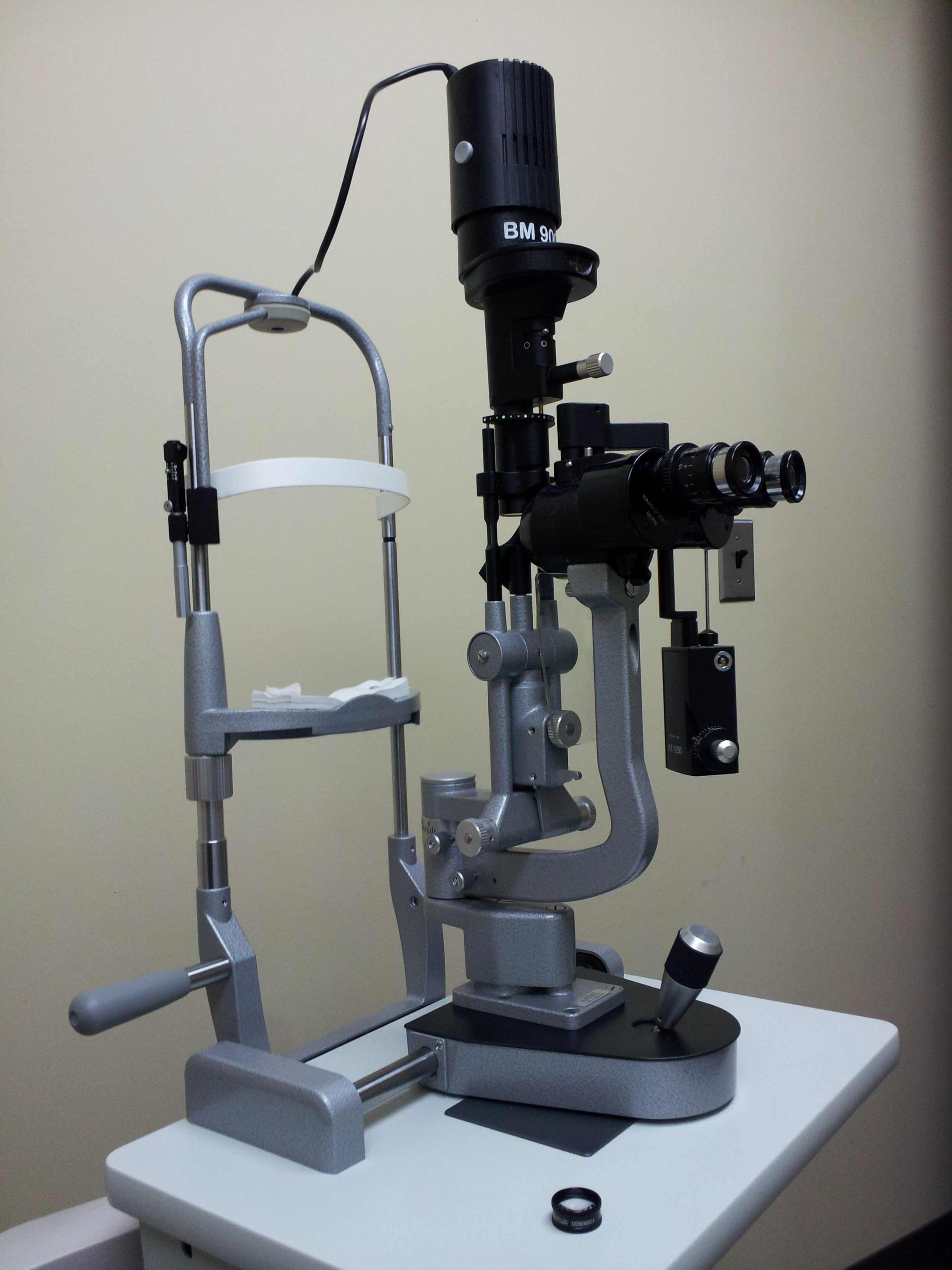 Slit lamp machine at the Rockville, Maryland office of the Retina Group of Washington. This is a side view of the machine.